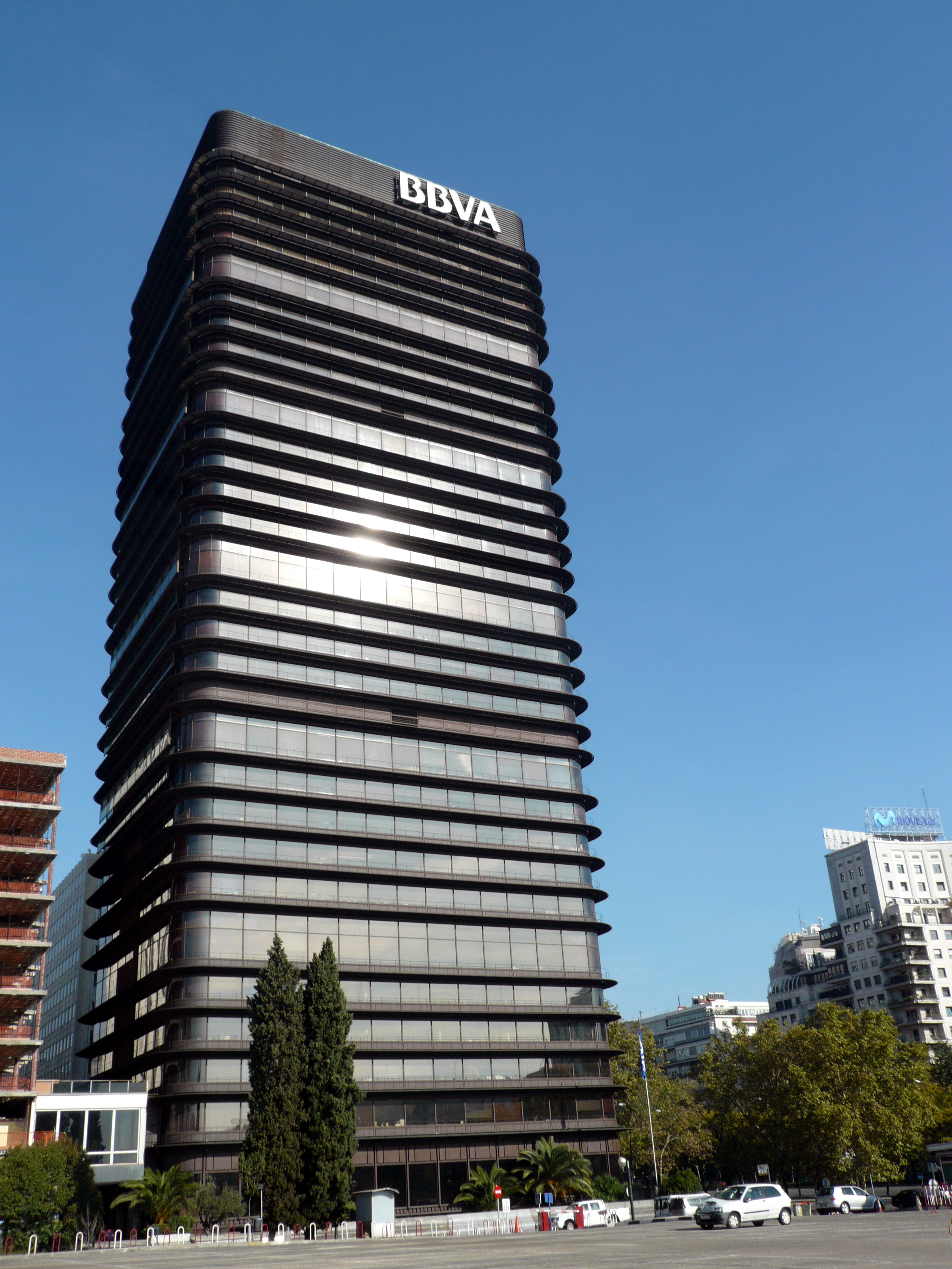 Bank of Bilbao Tower (Madrid, Spain, 1979–1981). Architect: Francisco Javier Sáenz de Oiza (1918–2000).